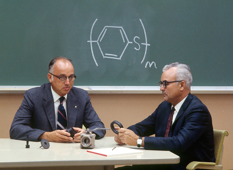 Phillips Petroleum Company early Ryton Pioneers